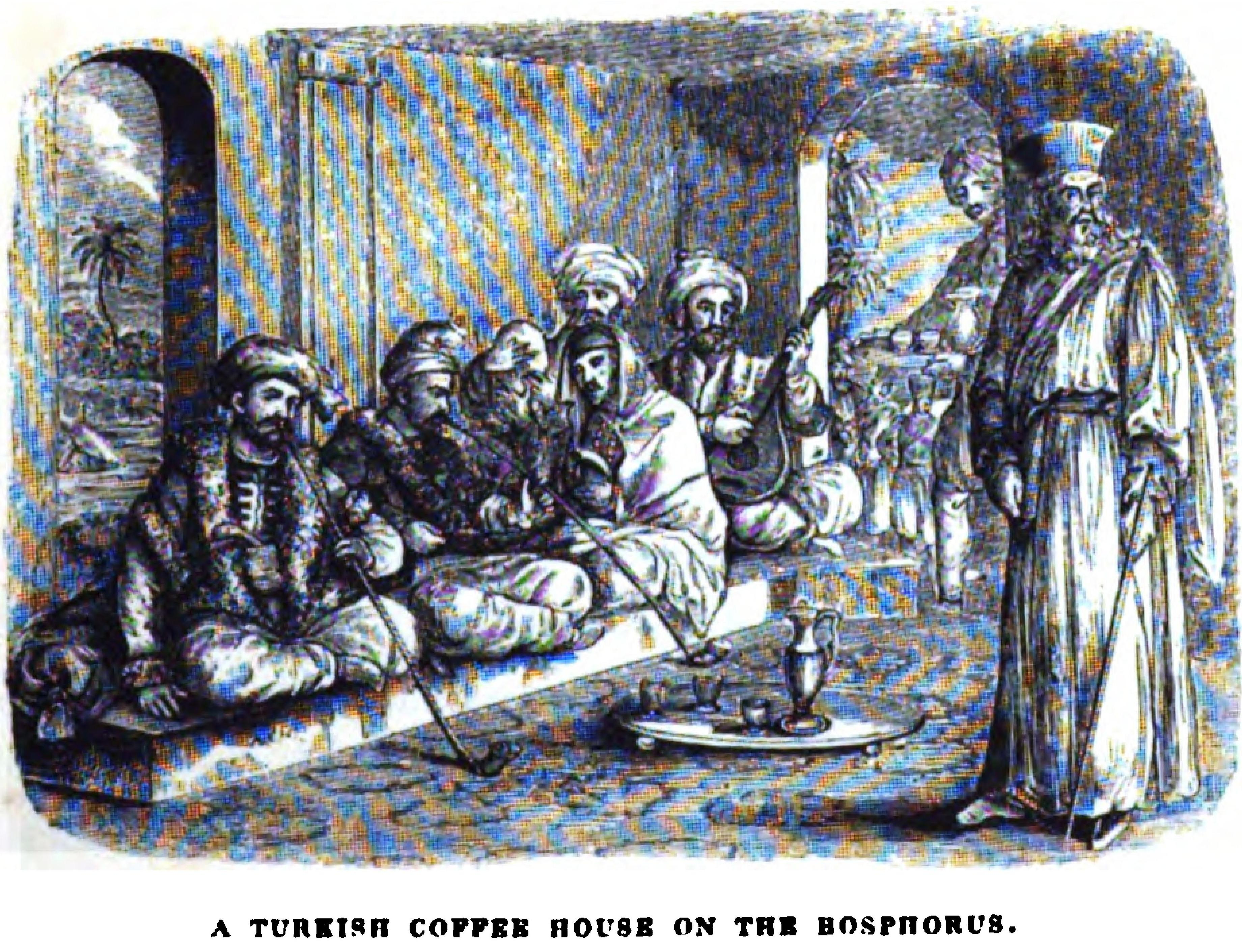 Adolphe Laurent Joanne, Travels in the western Causasus